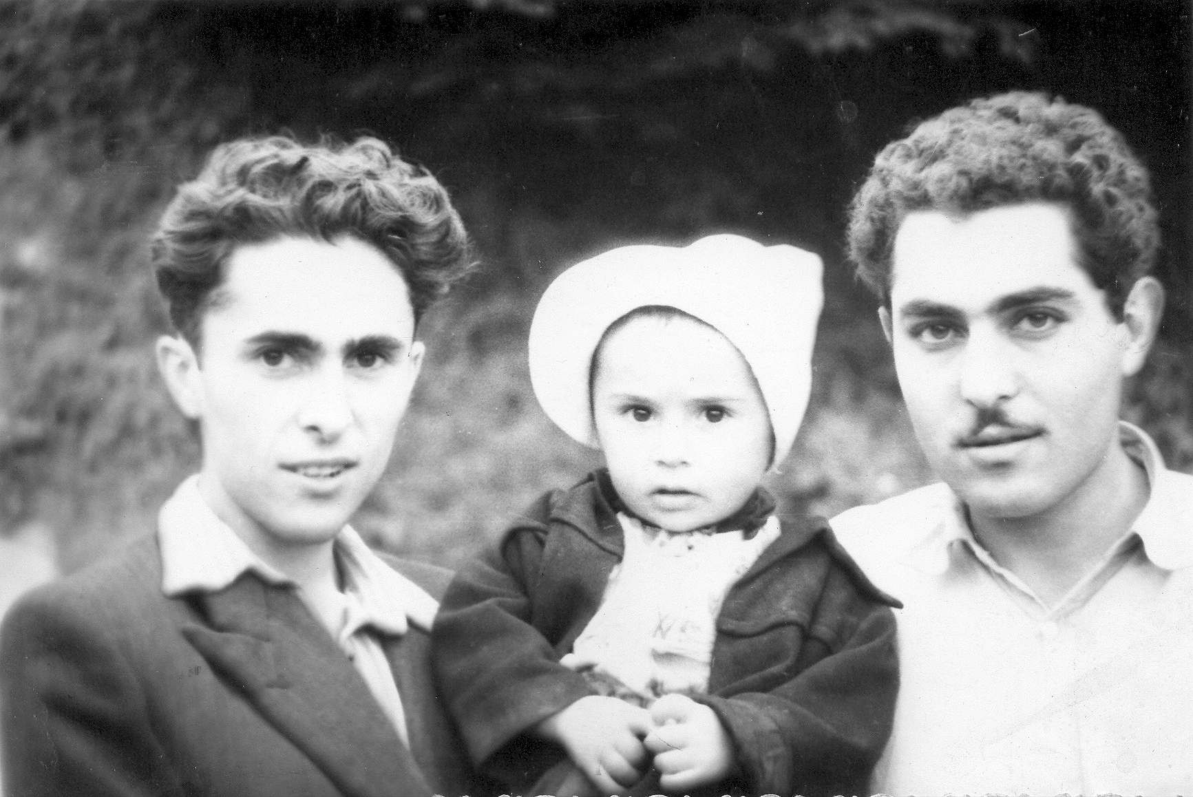 Edvard Chubaryan 75th Birthday, 05 May 2011 05, No. 28